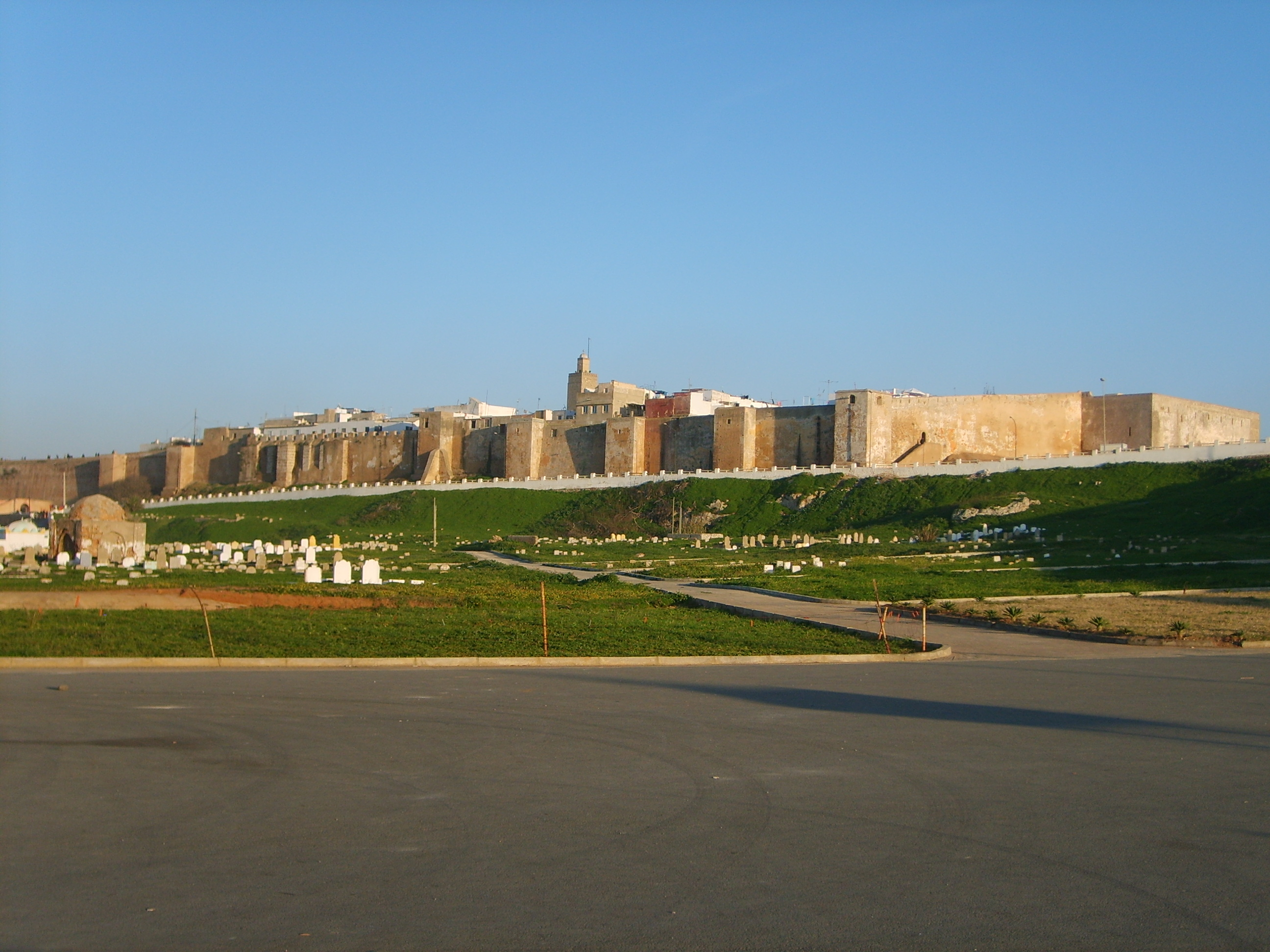 view of Les Oudayas from the coast in Rabat, Morocco